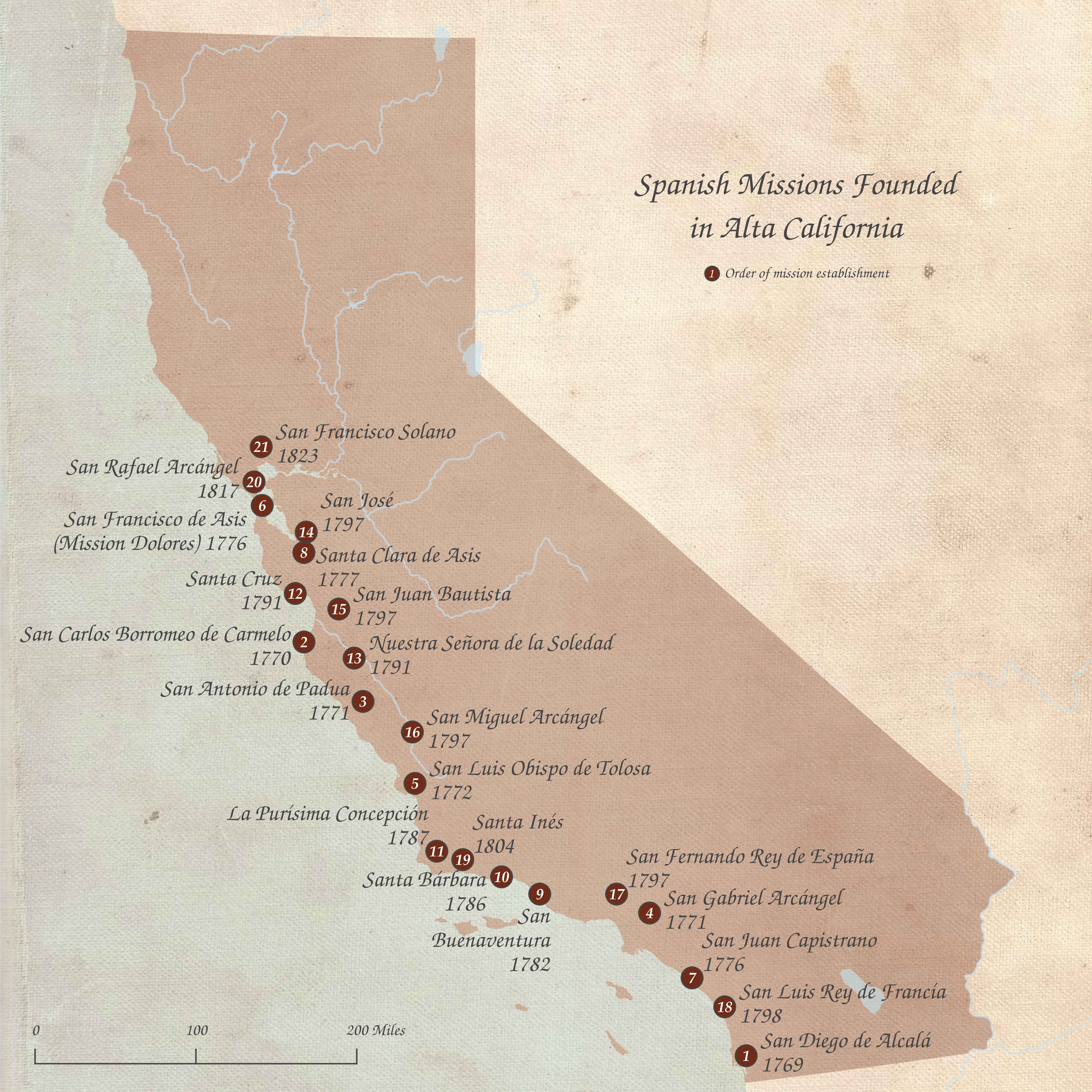 Projection - NAD83/California Albers Sources - Natural Earth, California Department of Parks & Recreation, Google Maps (for geocoding)